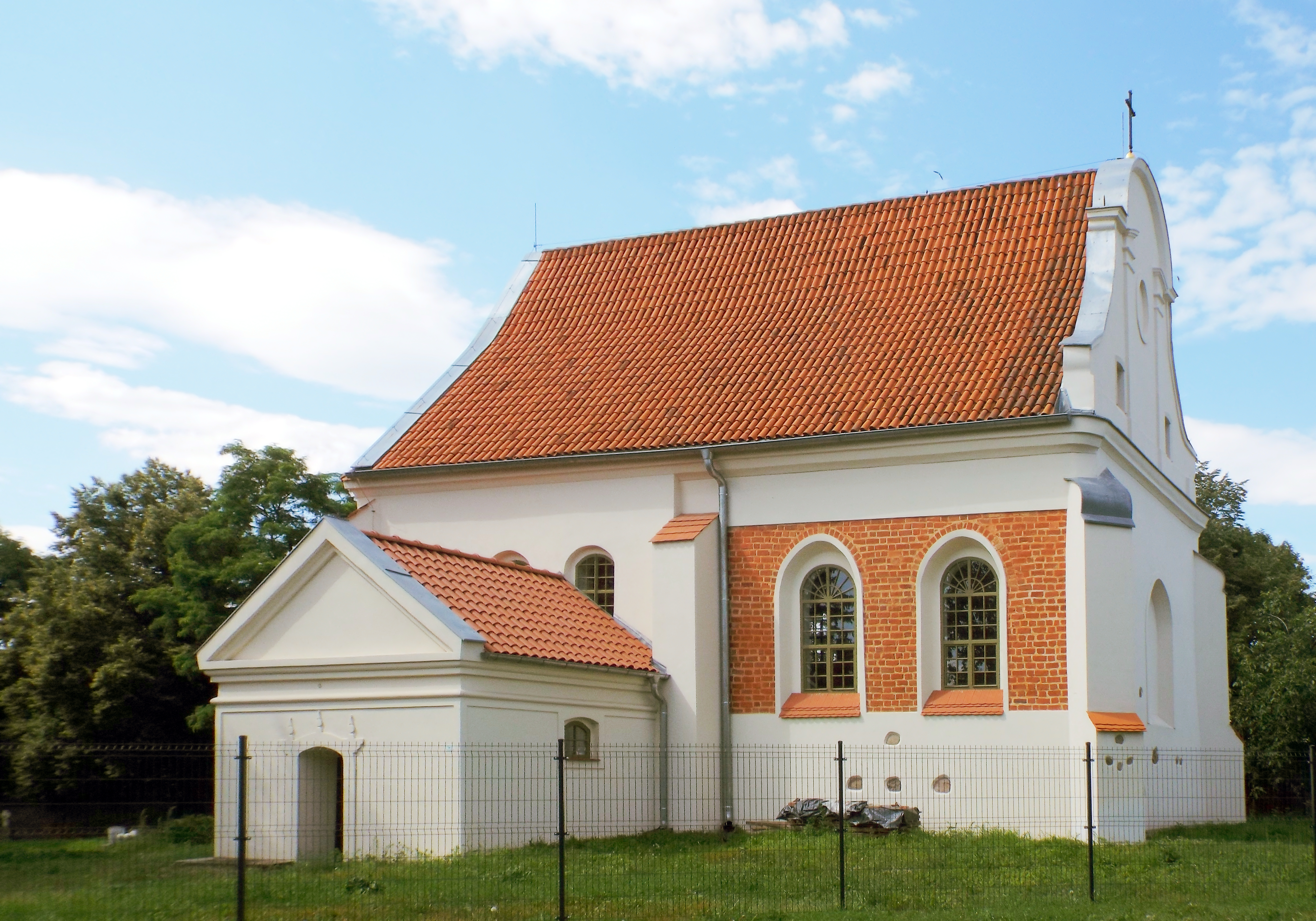 Owińska Poland, St. Nicholas church